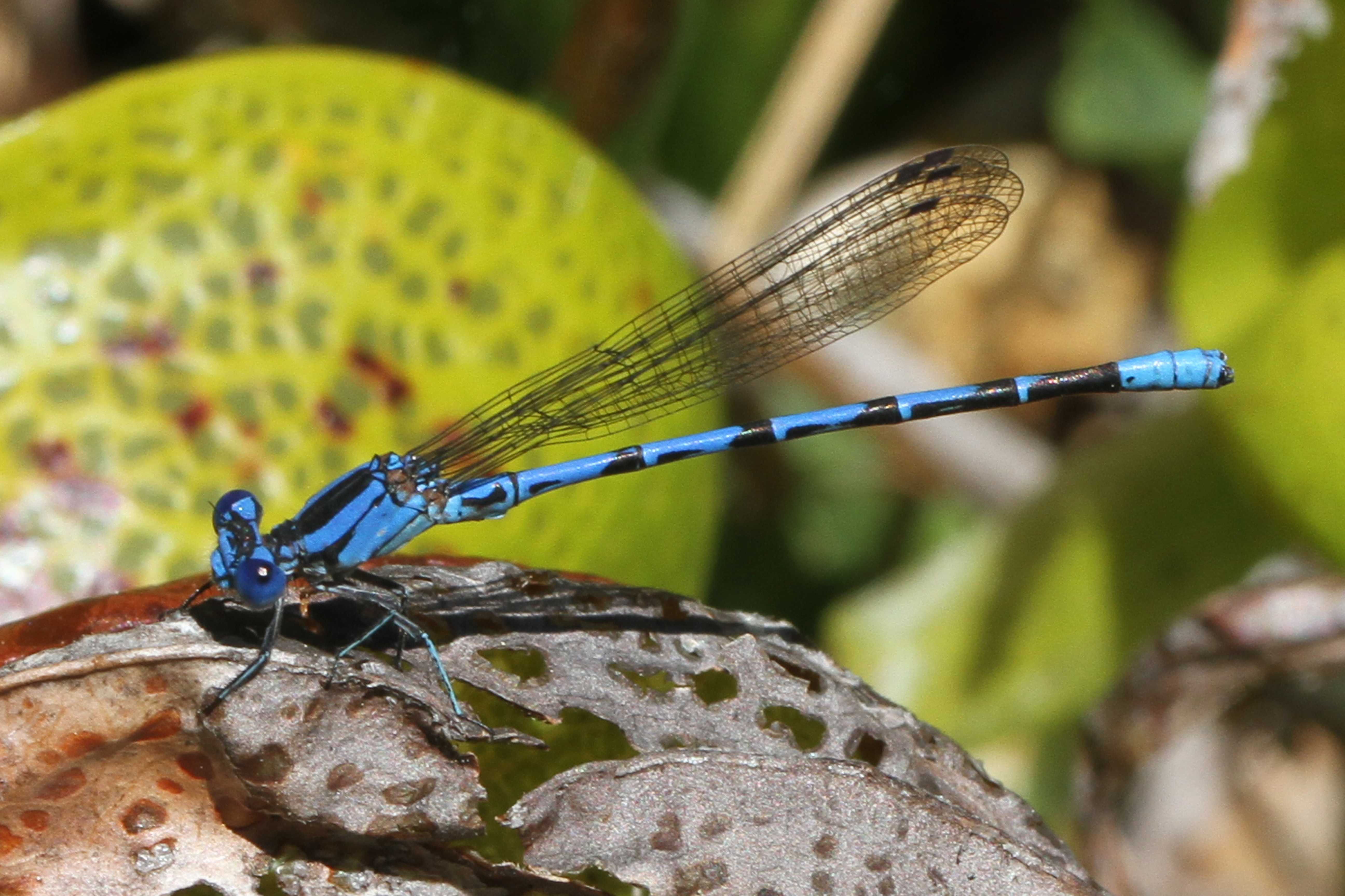 Vivid Dancer - Argia vivida, on pitcher plant, Butterfly Valley, California